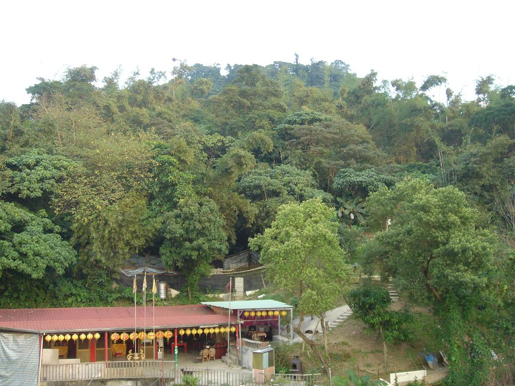 Tsimshan located on the border of Xindian and Jhonghe in Taipei County.中文（台灣）: 尖山位在臺北縣新店與中和交界。